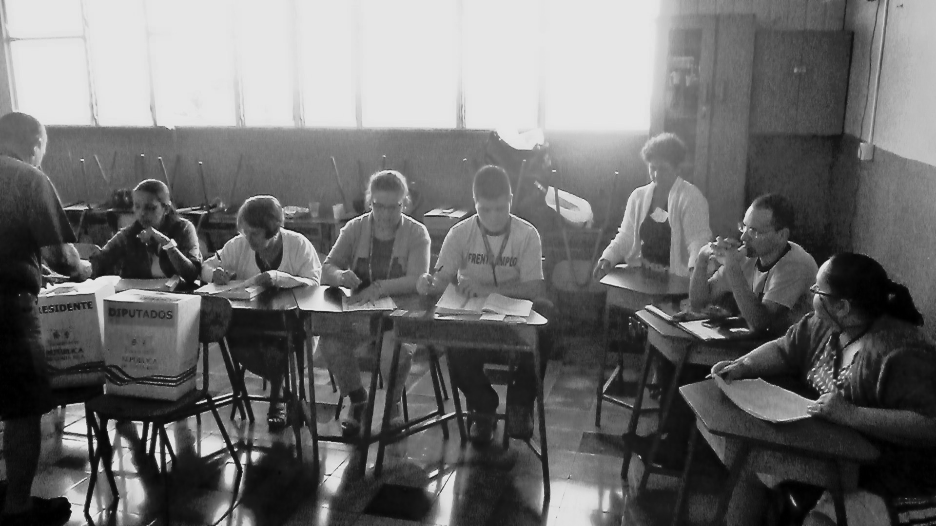 Ballot boxes at Quesada during Costa Rican general election, 2014.